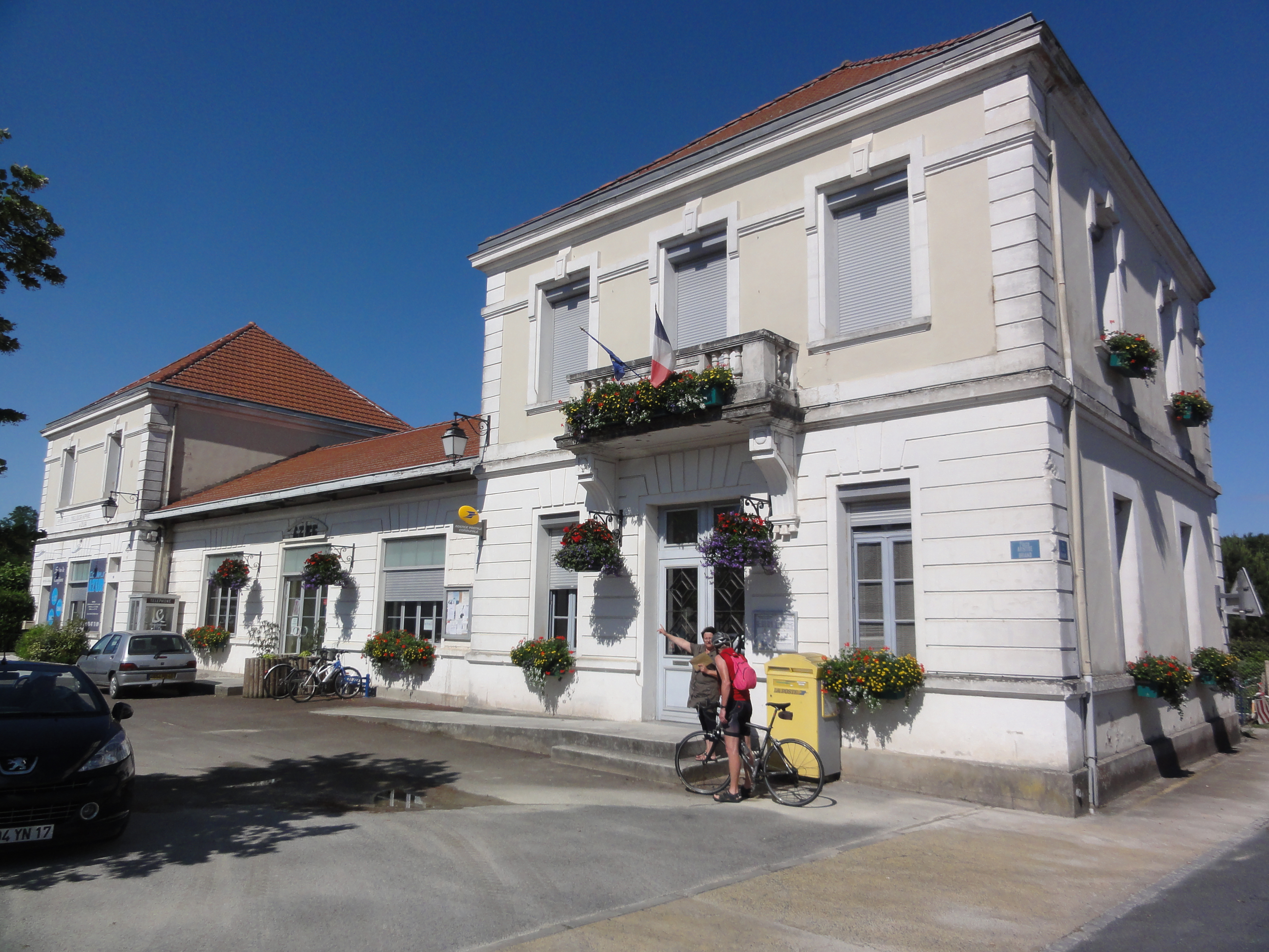 Azur (Landes) mairie